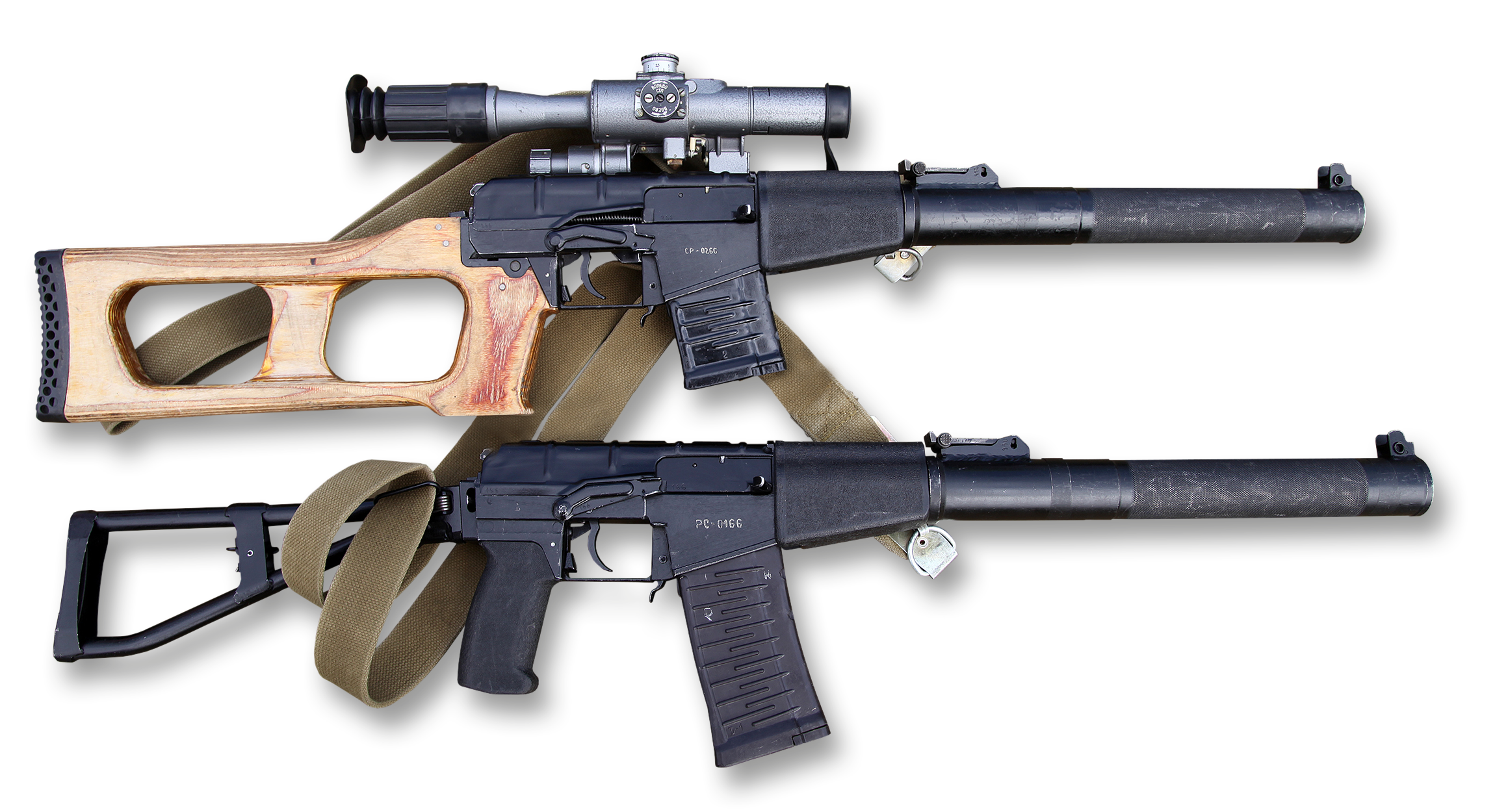 VSS Vintorez and AS Val